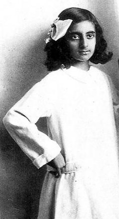 Indira Gandhi (Nehru) posing for a picture as a teen.